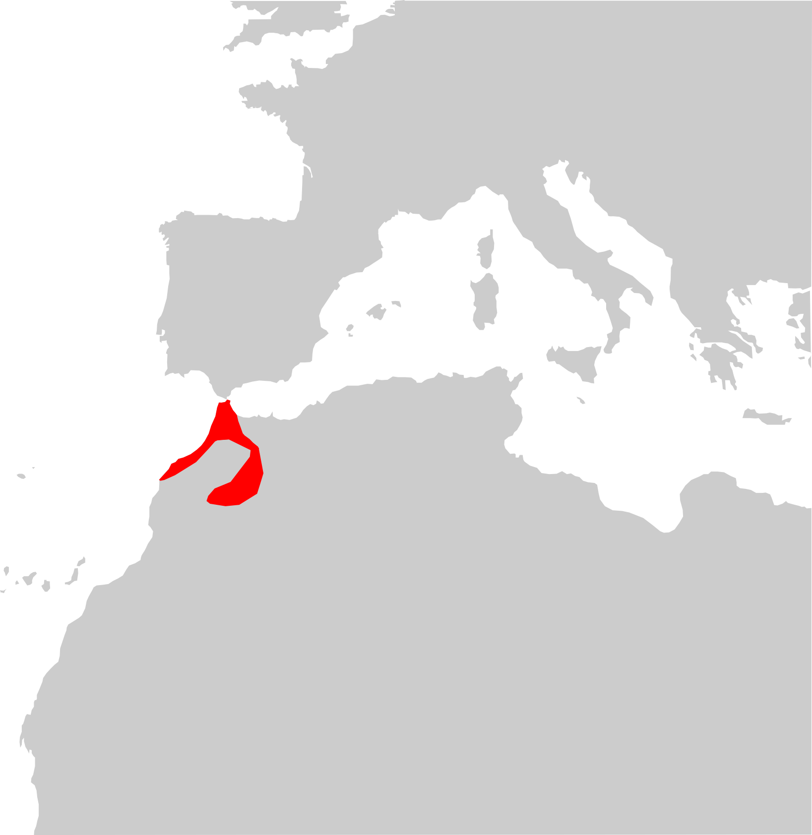 Chalcides pseudostriatus distribution map.